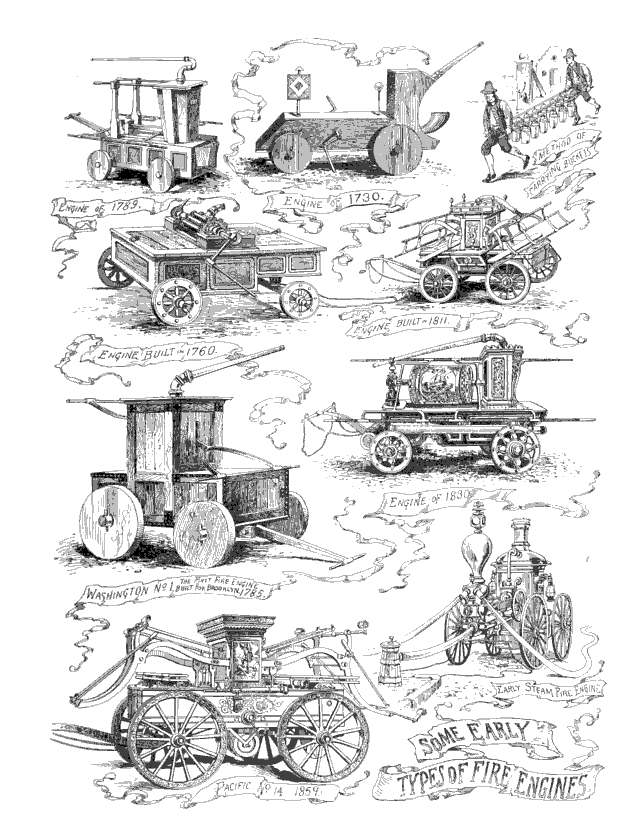 some early types of fire engine.